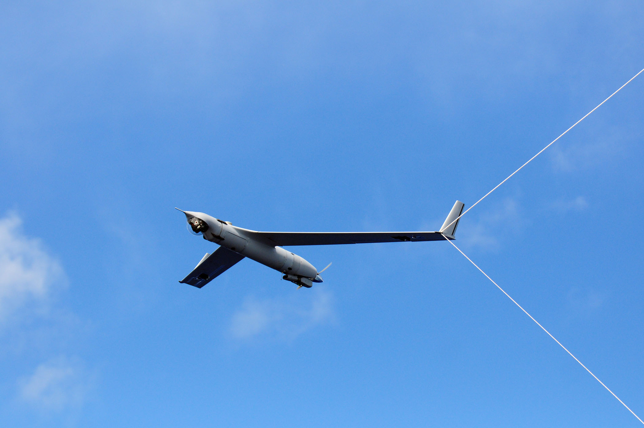 PACIFIC OCEAN (Feb. 26, 2011) A Scan Eagle Unmanned Aerial Vehicle (UAV) makes an arrested recovery on the Skyhook recovery system aboard the amphibious dock landing ship USS Comstock (LSD 45). Scan Eagle is a runway independent, long-endurance, unmanned aerial vehicle system designed to provide multiple surveillance, reconnaissance data, and battlefield damage assessment missions. Comstock is part of the Boxer Amphibious Ready Group and is underway in the U.S. 7th Fleet area of responsibility. (U.S. Navy photo by Mass Communication Specialist 2nd Class Joseph M. Buliavac/Released)